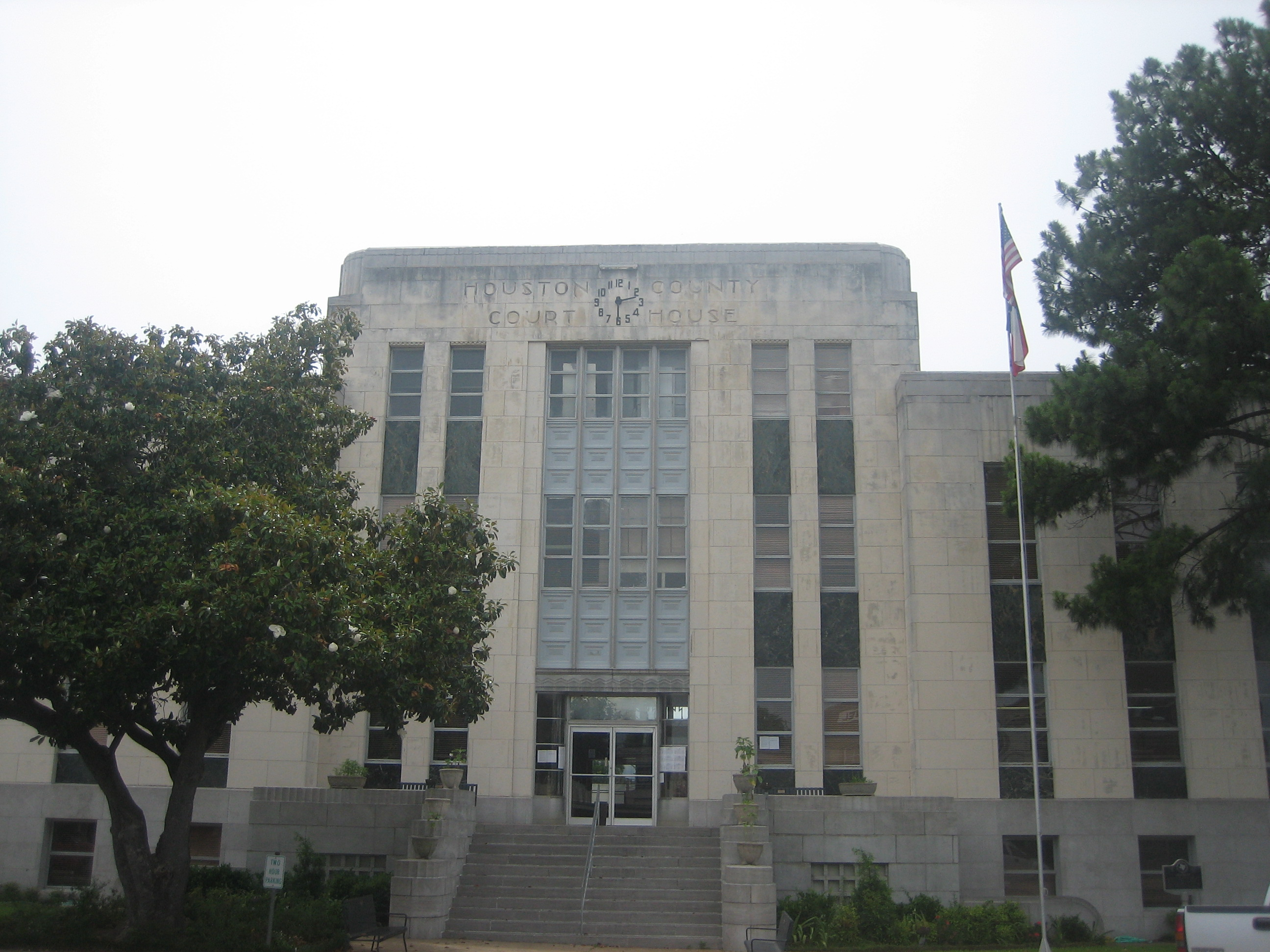 I took photo on May 27, 2009. Billy Hathorn (talk) 19:37, 31 May 2009 (UTC)